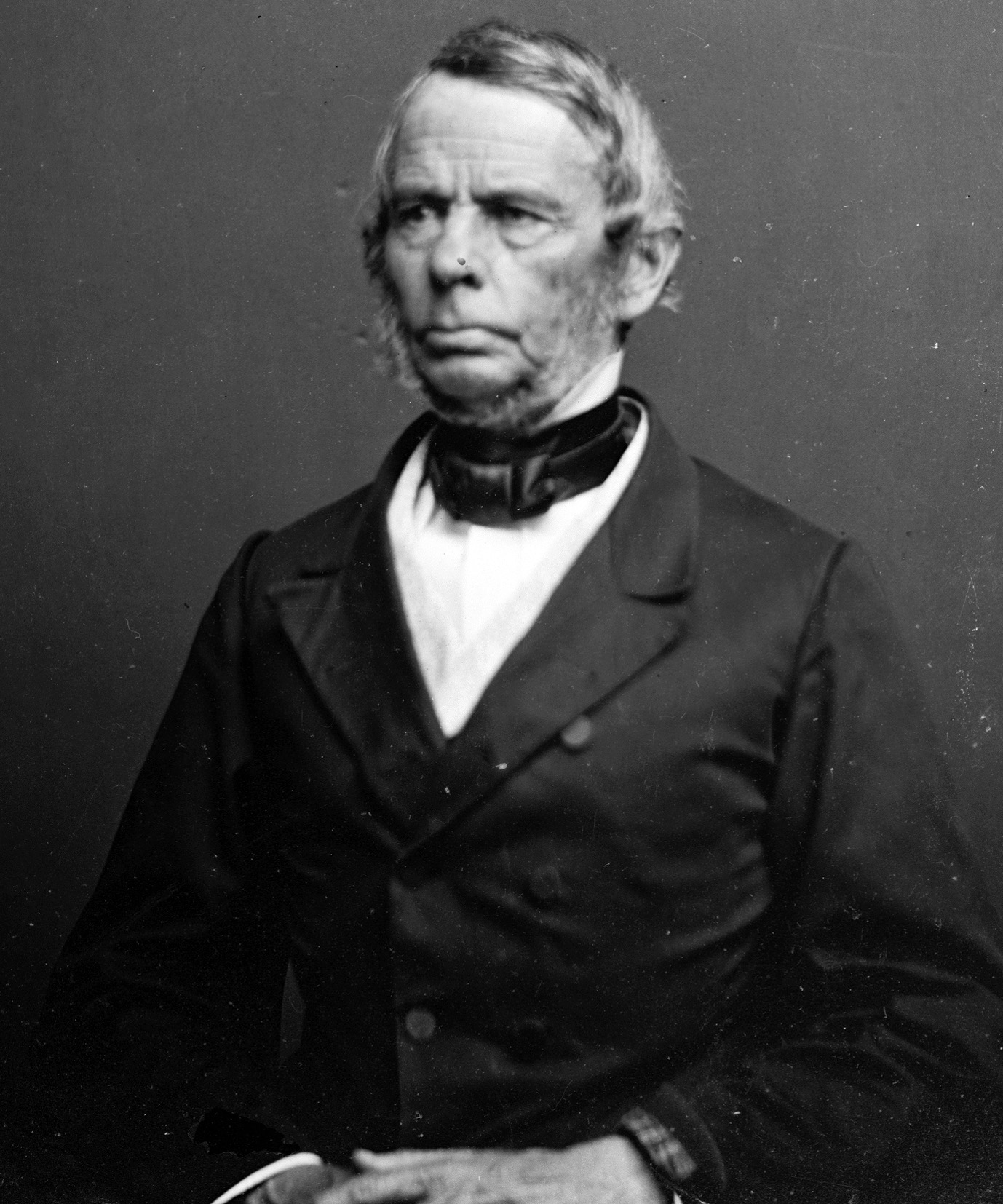 Thomas M. Edwards, US Representative from New Hampshire